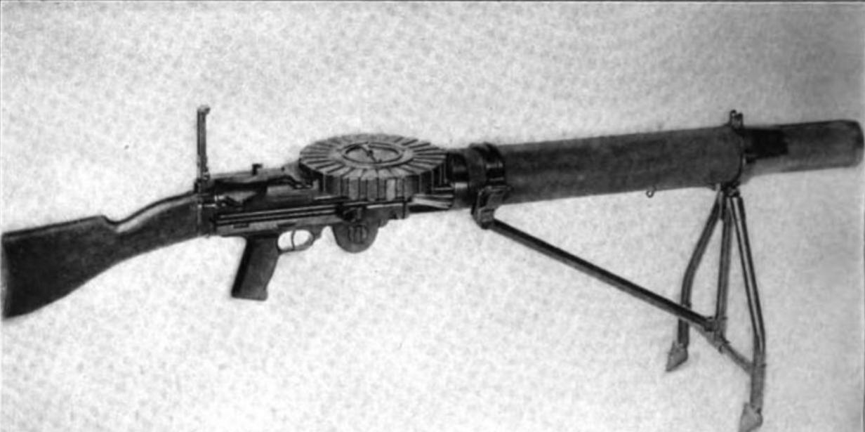 1916 photograph of a Lewis Gun. Caption: "The Lewis Gun Assembled - The gun weighs but 26½ pounds, light enough for one man to carry, so that in case of a hasty retreat it need not be abandoned to the enemy, as many heavier types of machine guns must be"